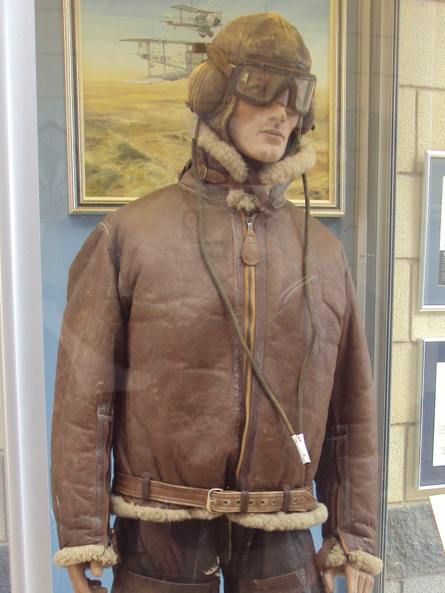 Mannequin showing a pilot's lambskin leather bomber jacket. Photo taken at the RAF Museum Cosford, Shropshire, England.